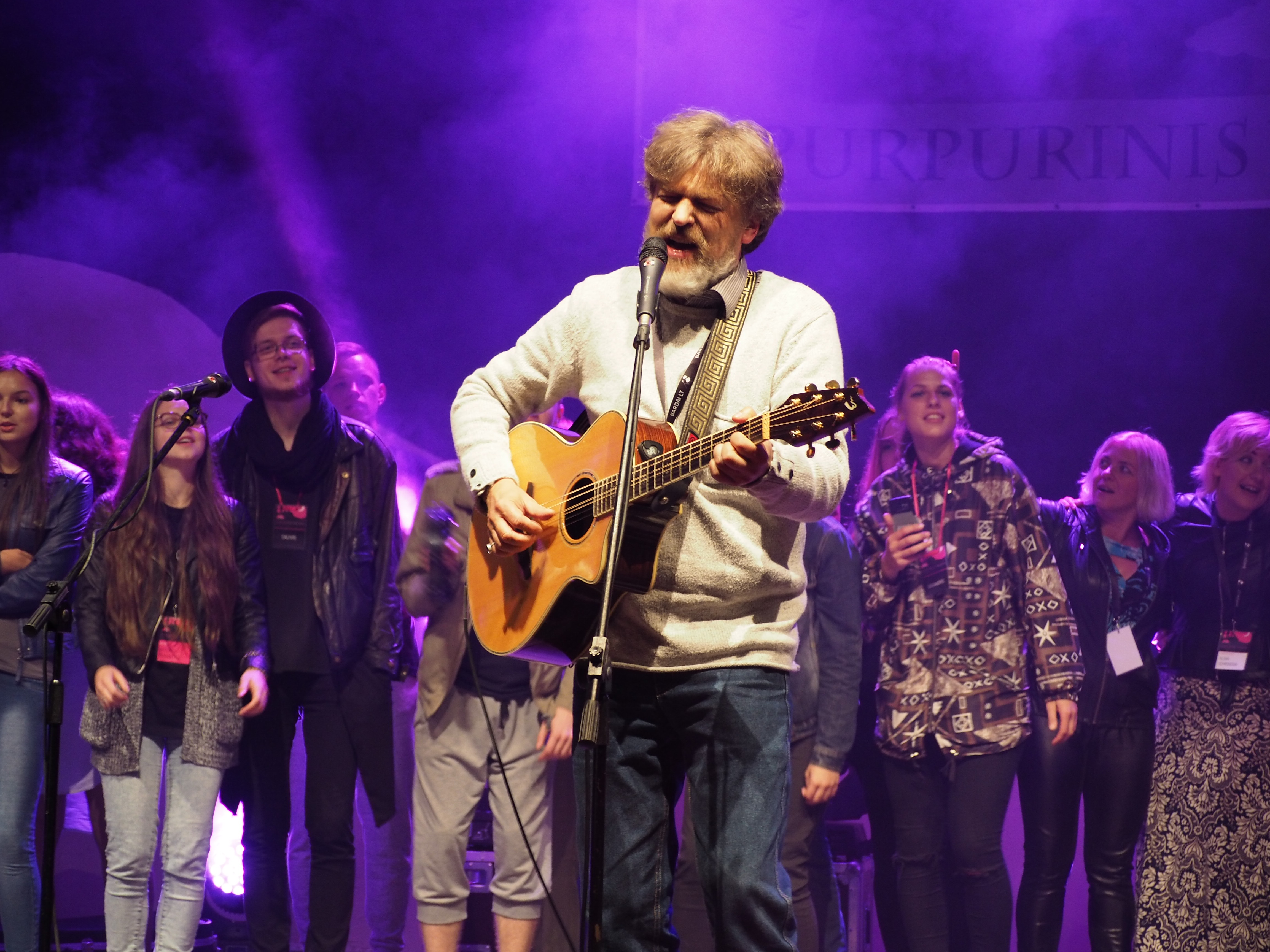 Gediminas Storpirštis performs final song („Purpurinis vakaras“ by Vytautas Kernagis) at Purpurinis vakaras, 2016